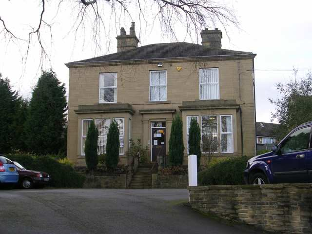 British Red Cross - Leeds Road, Thackley